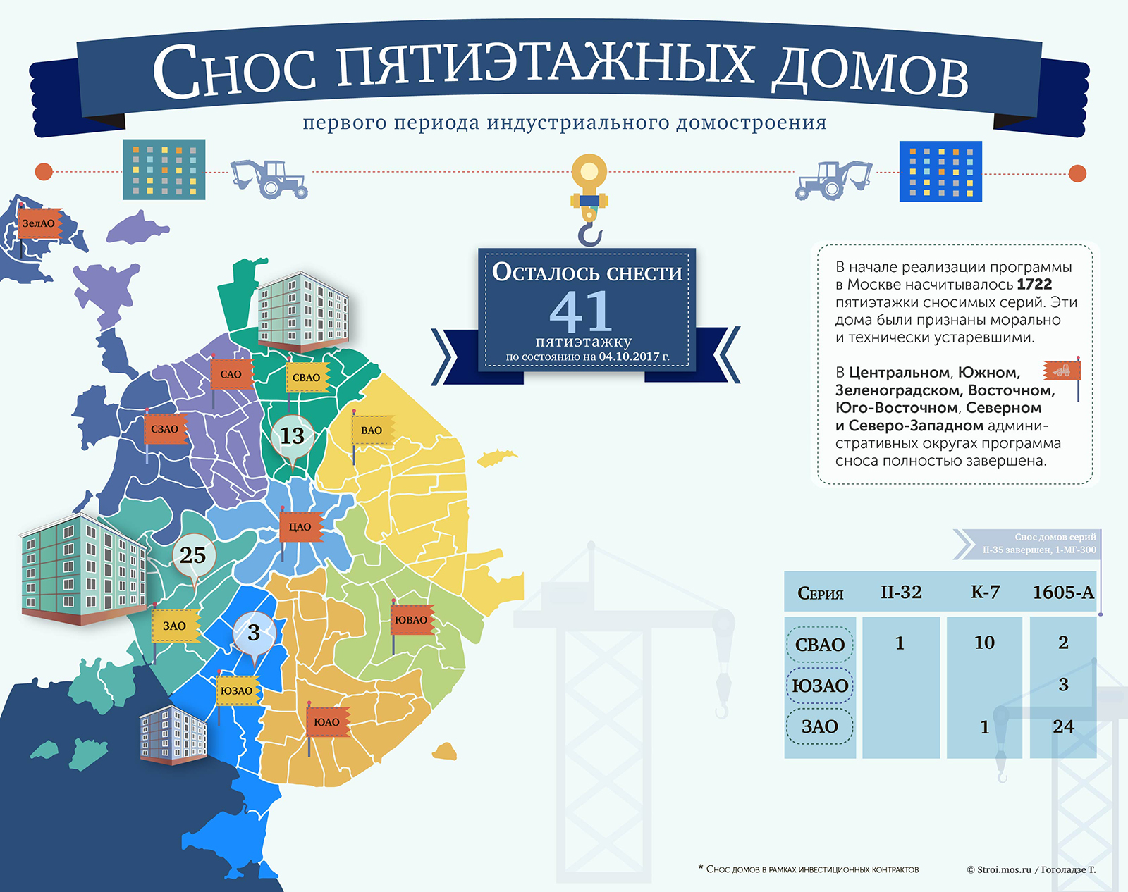 Снос пятиэтажек в Москве